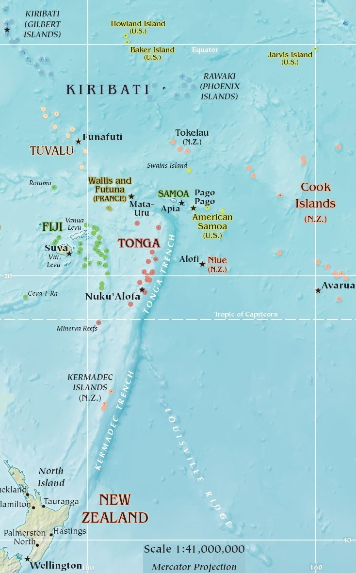 Map of central Oceania. Cropped from a map of Oceania, from a CIA factbook.